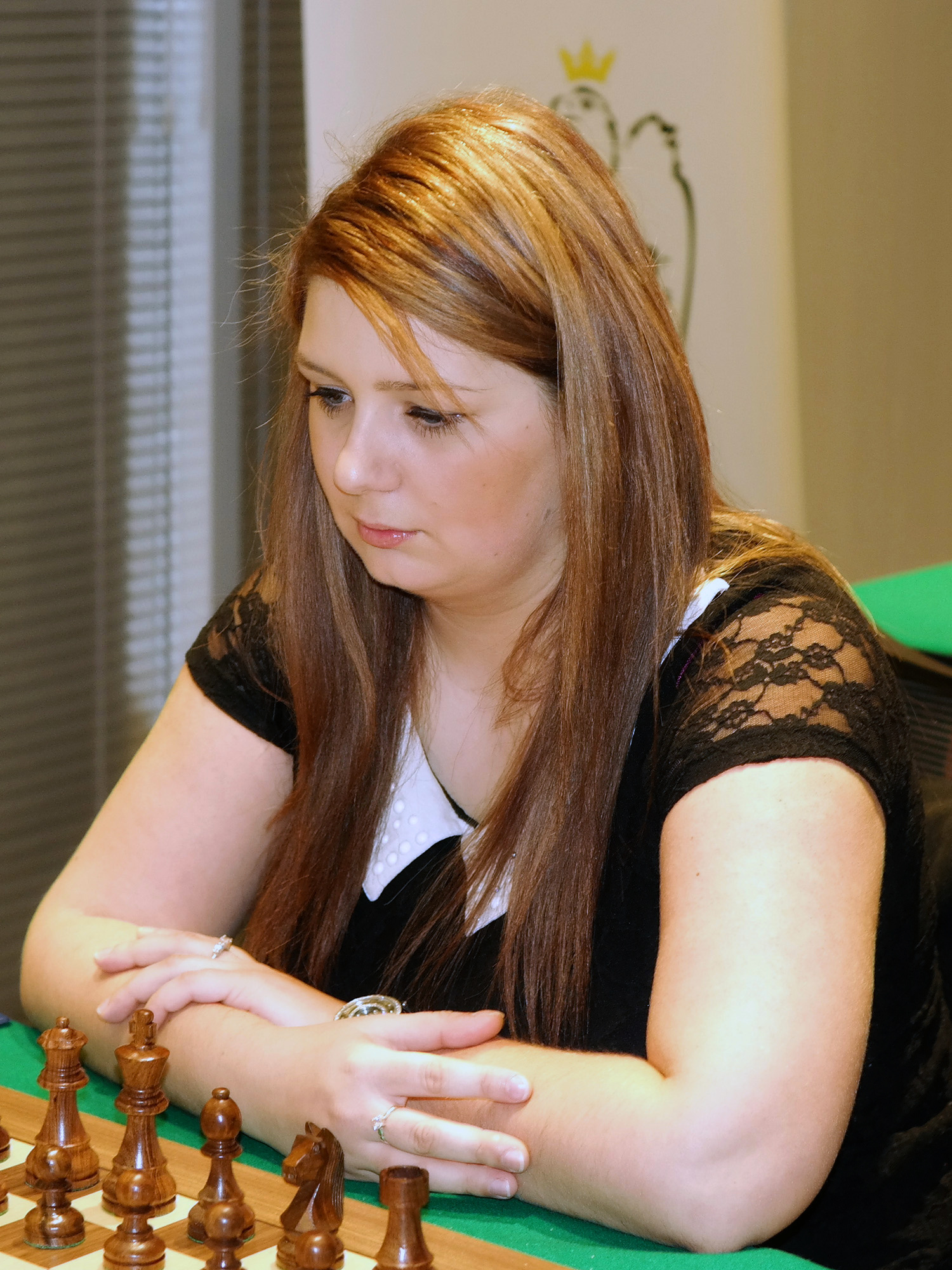 WIM Klaudia Kulon, Polish Chess Championship, Warsaw 2014